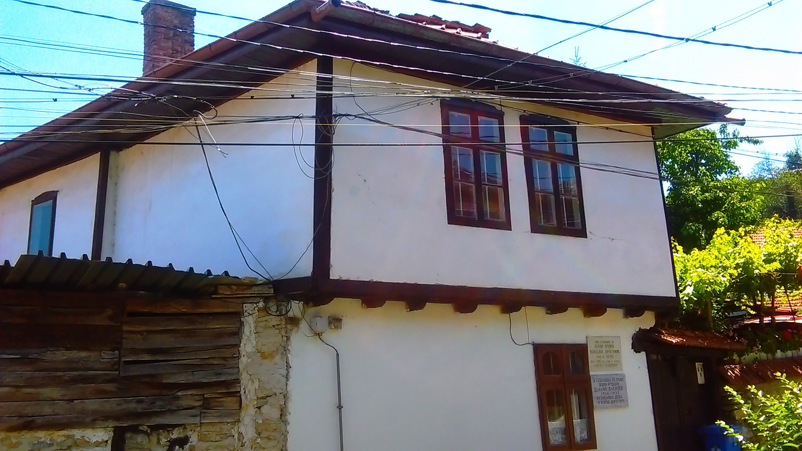 Pano Boyadji-Draganov's house in Lovech, Bulgaria